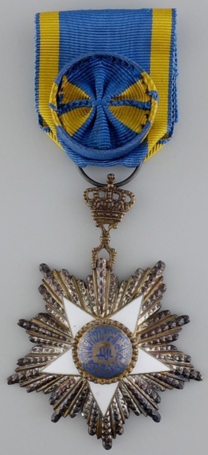 Egypt's highest state honour, instituted in 1915 for exceptional services to the nation.